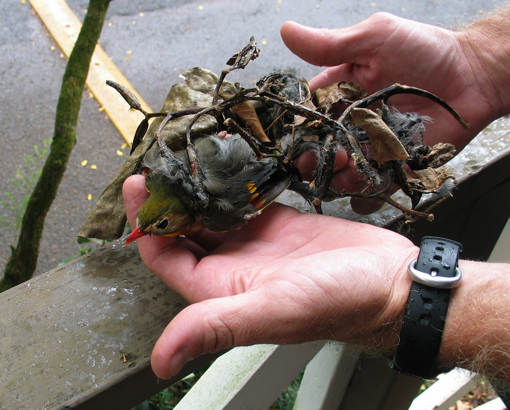 THE SAGA OF AN ALIEN BIRD AND A NATIVE HAWAIIAN TREE This is a Leiothrix or Peking robin (Leothrix lutea). The sticky mass coating the poor victim are non-avian friendly seed pods of Pāpala kēpau (Pisonia brunoniana), also known as the birdcatcher tree. Obviously, this tiny bird along with four others are in serious trouble! Follow the saga & see how it turns out